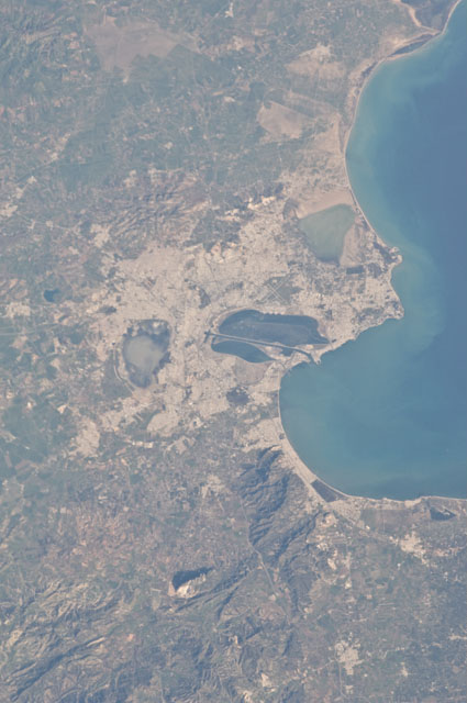 Astronaut Photo of Tunis, Tunisia taken from the International Space Station (ISS) during Expedition 27 on April 8, 2011.